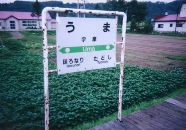 Shinmeisen Uma Station's name 1996-08